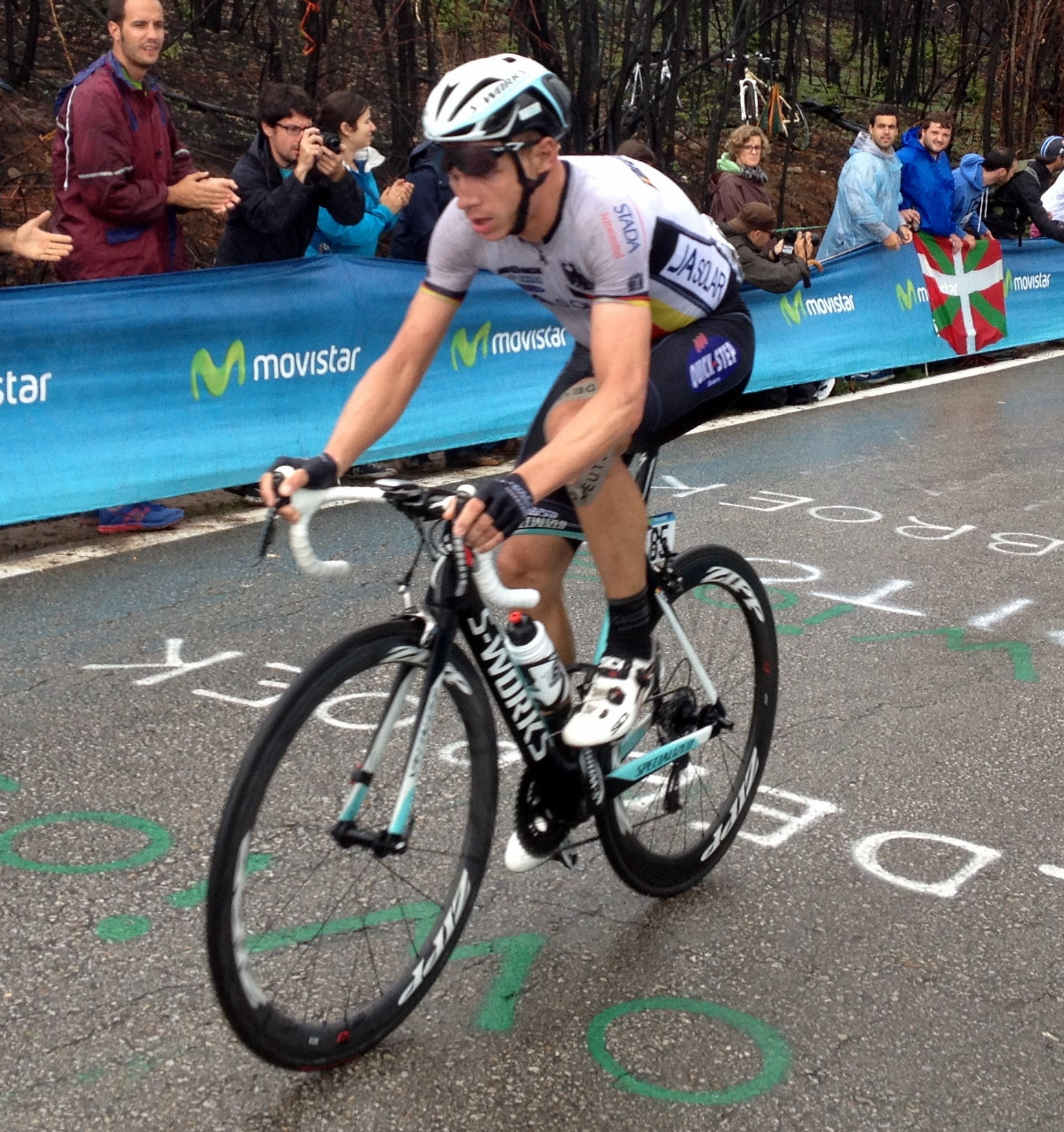 Tony Martin - Ponferrada 2014